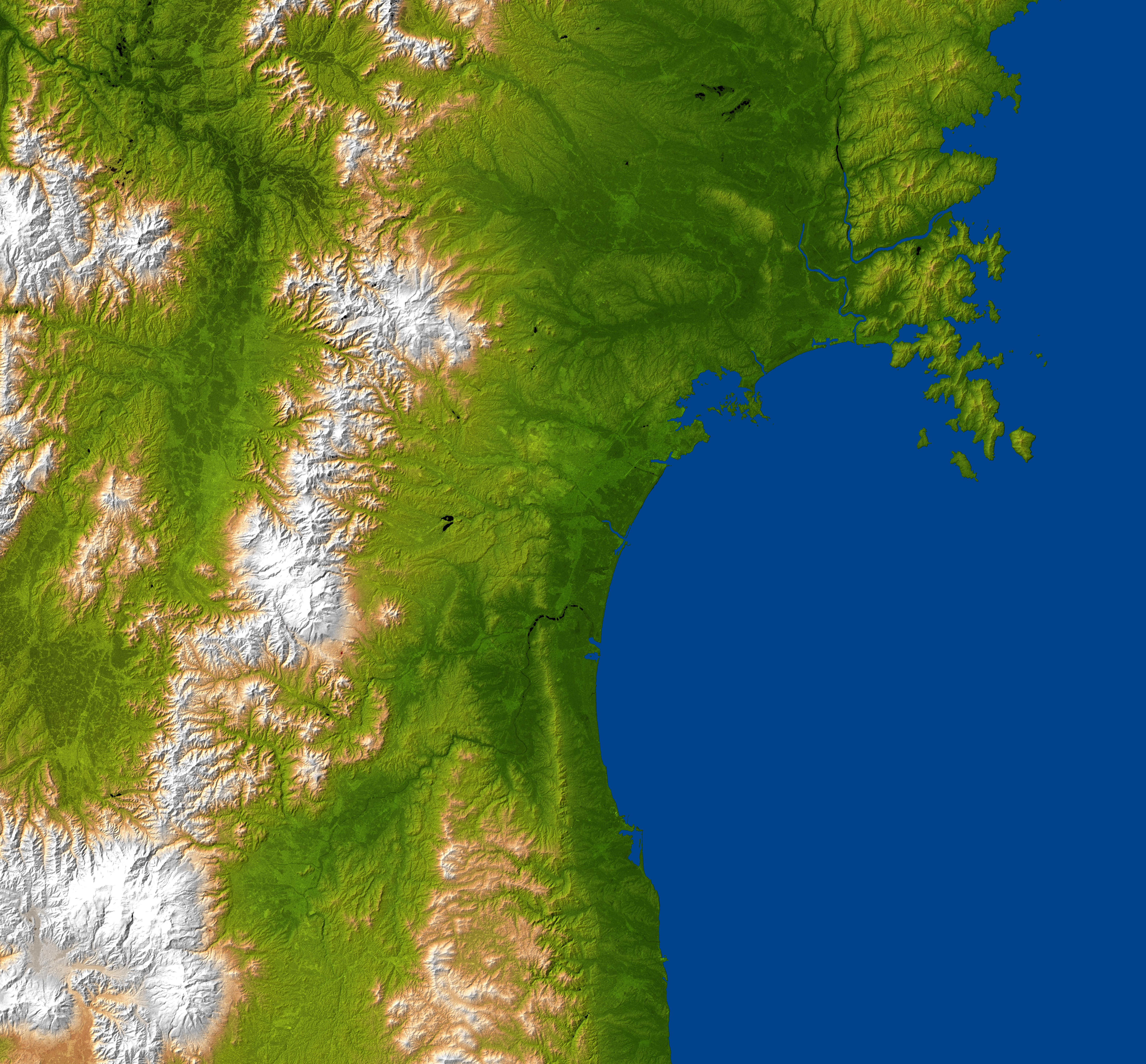 The topography surrounding Sendai. “The city is centered in the image and lies along the coastal plain between the Ohu Mountains and the Pacific Ocean.” This is a “combined radar image and topographic view generated with data from NASA's Shuttle Radar Topography Mission (SRTM)[1] […] This image combines a radar image acquired in February 2000 during the SRTM mission, and color-coding by topographic height using data from the same mission. […] The mission is a cooperative project between NASA, the National Geospatial-Intelligence Agency (NGA)[2] of the U.S. Department of Defense and the German[3] and Italian[4] space agencies. It is managed by NASA's Jet Propulsion Laboratory[5], Pasadena, Calif., for NASA's Science Mission Directorate, Washington, D.C.” Location: 38°15′N 140°51′E / 38.25°N 140.85°E Size: approximately 174 by 160 kilometers (108 by 99 miles) SRTM Data Acquired: February 2000 Image Credit: NASA/JPL/NGA Image Addition Date: 2011-03-11